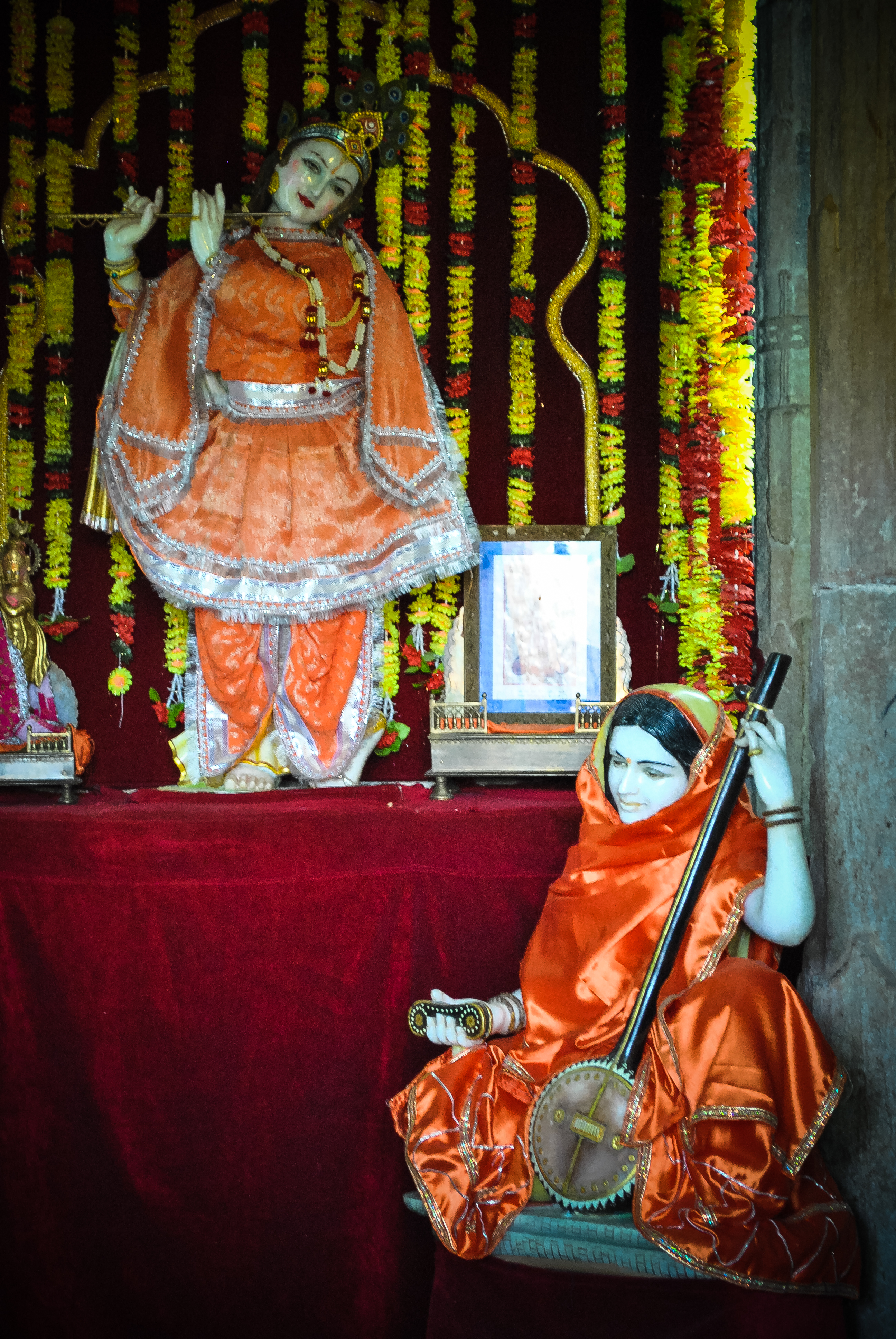 Rajasthan-Chittore_Garh